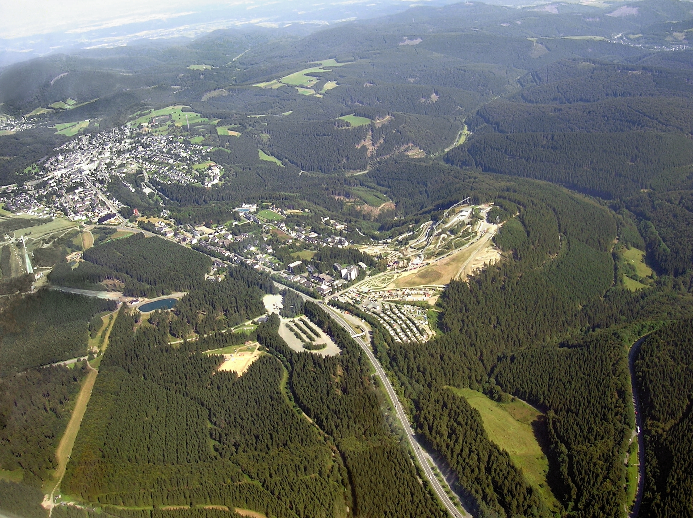 Aerial view of Winterberg